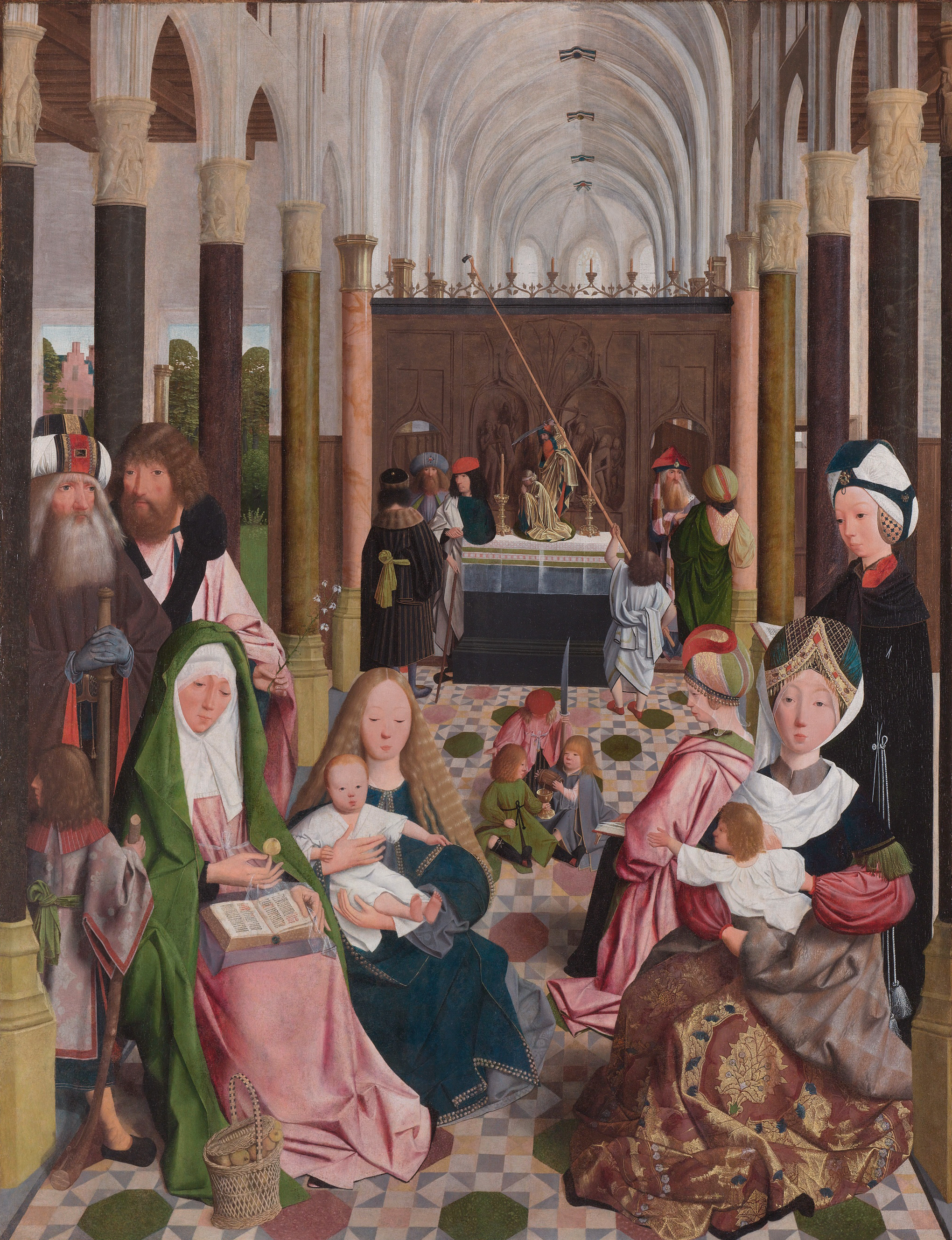 All of the people gathered together in this church are relatives of Christ. Saint Anne, the Virgin’s mother, is seated at bottom left. To the right of her is Mary with the Christ Child on her lap. Their husbands Saints Joachim en Joseph stand behind them. On the right are Saint Elisabeth, the Virgin’s cousin, with her son John the Baptist, Mary Cleophas (in profile), with Mary Salome standing behind Elizabeth. The three boys in the middle of the church can be identified from their attributes as Simon Zelotes with the saw (the son of Mary Cleophas and Alpheus), St John the Evangelist with the chalice, and James the Greater with the tiny barrel of wine - the latter two being the sons of Mary Salome and Zebedee. The other figures may be the other three sons of Maria Cleophas and Alpheus, James the Less, Jude Thaddeus and Joseph the Just, and Cleophas (St Anne’s second husband), Alpheus, Salomas (St Anne’s third husband) and Zebedee (Mary Salome’s husband).